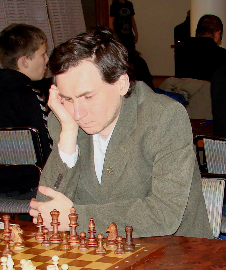 GM Mikhail Ulibin (Russia), Rilton Cup Stockholm 2009/10